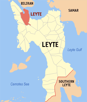 Map of Leyte showing the location of the Municipality of Leyte